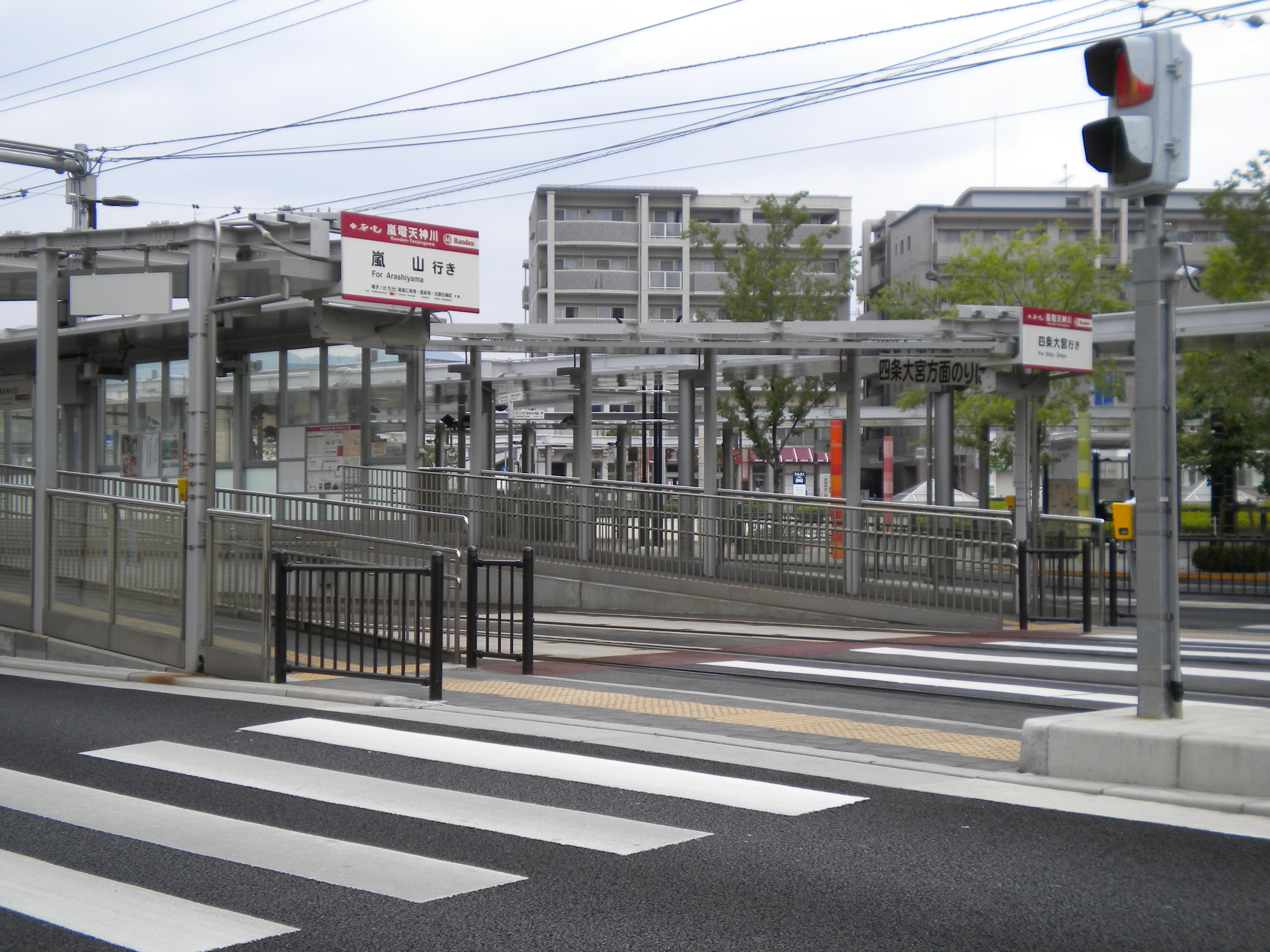 Level crossing at Randen tenjingawa station